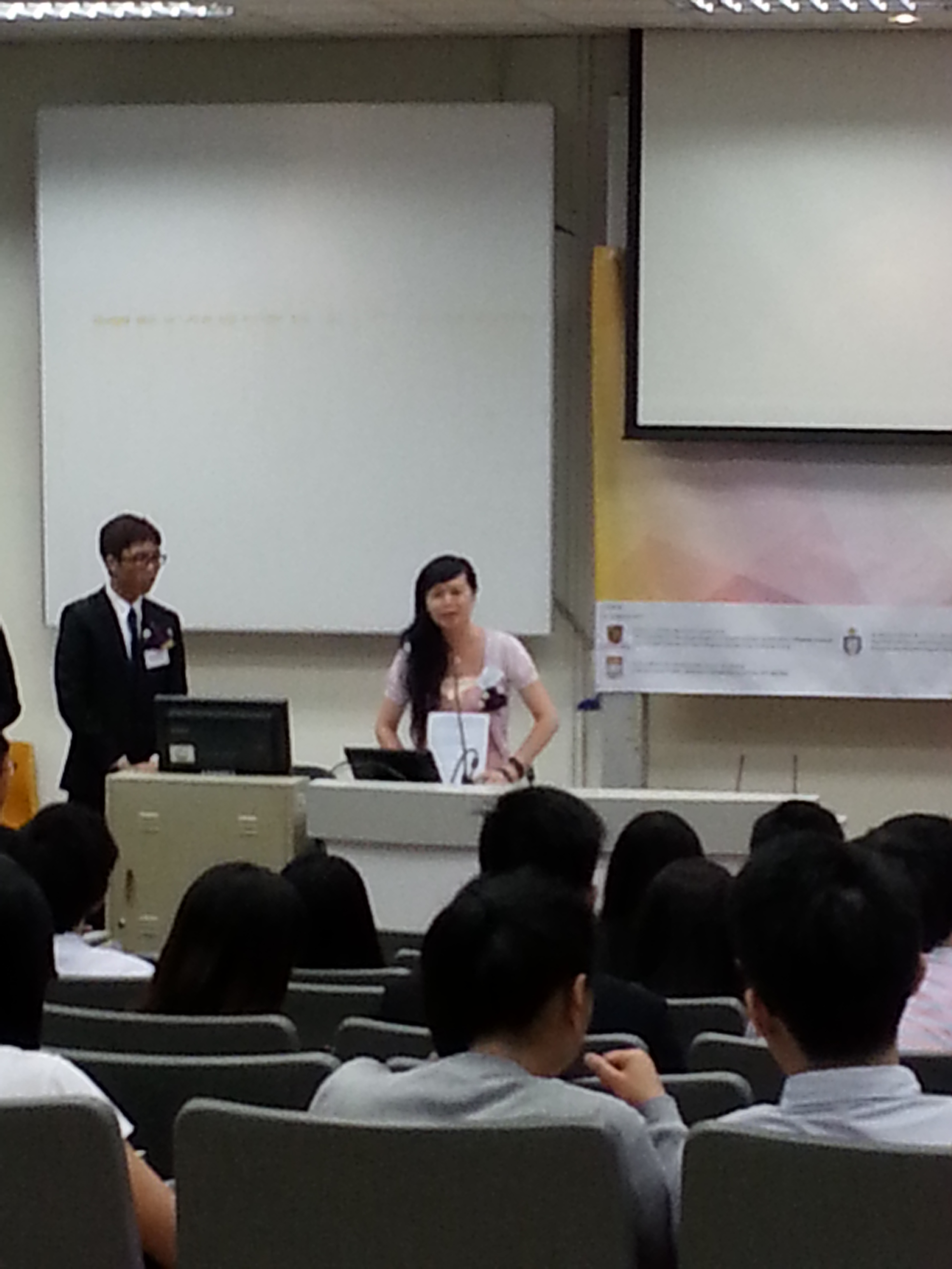 Sze Lai-Shan@HKU Seminar